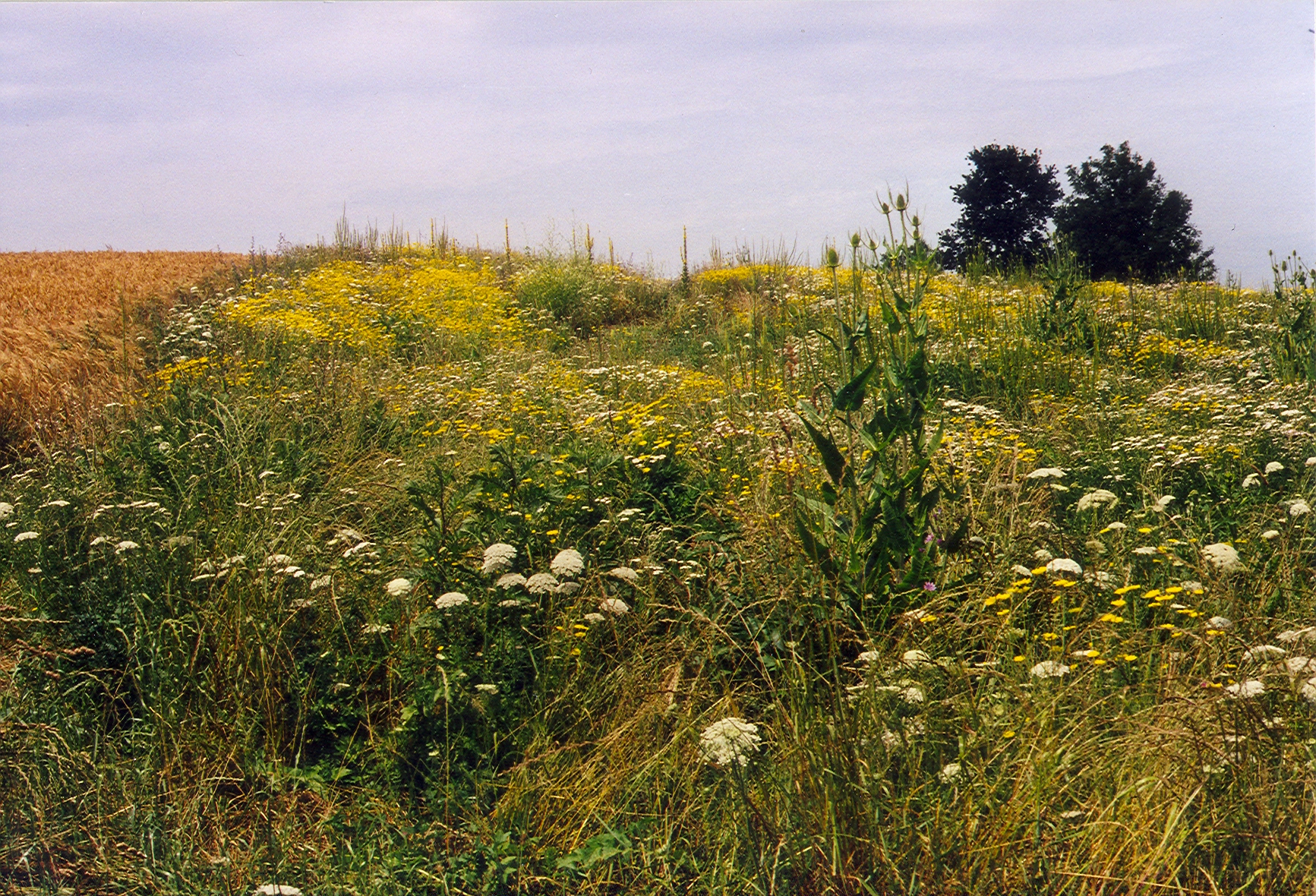 Ecological compensation area, canton of Bern, Switzerland